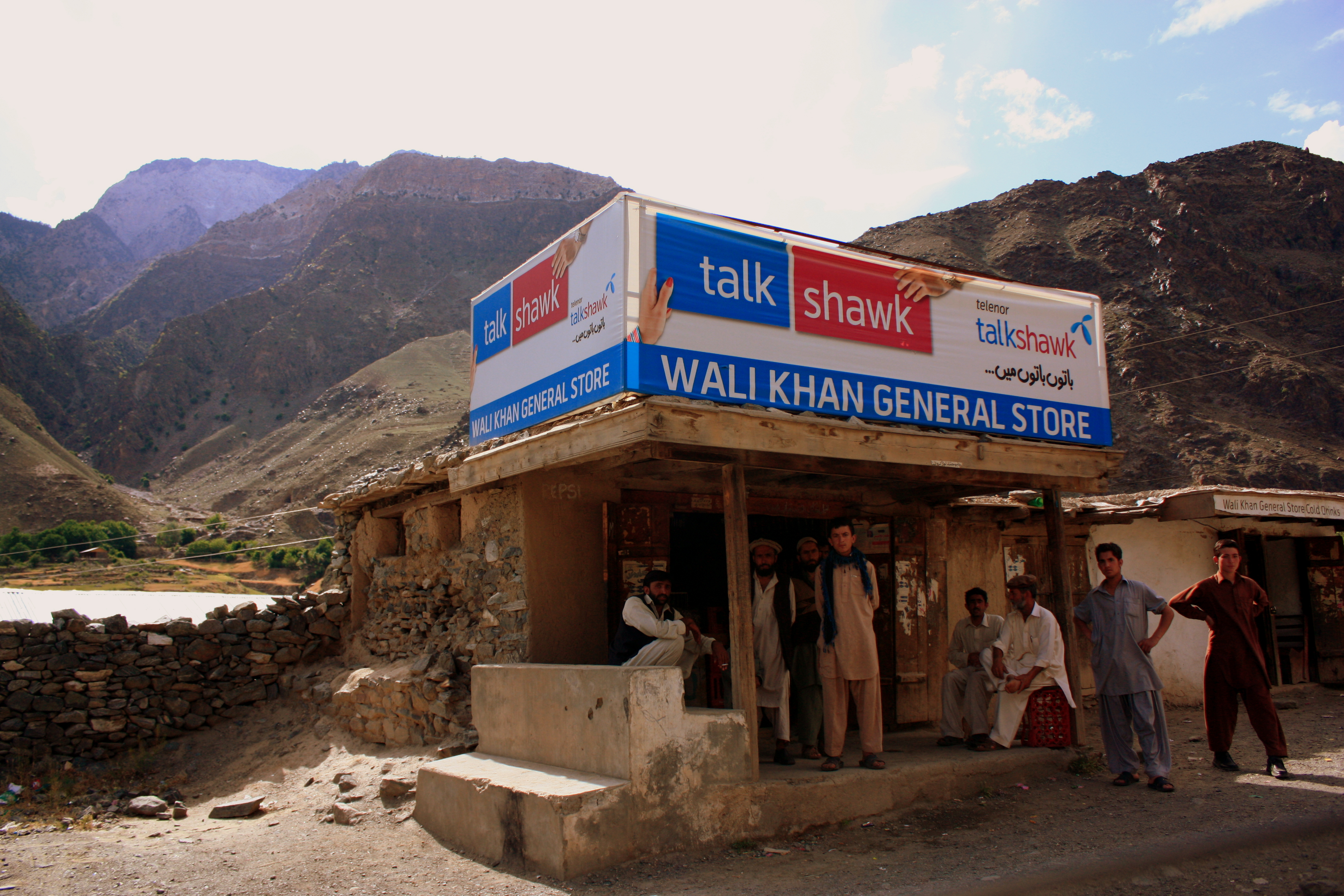 Men dressed in Shalwar kameez on the road to Kalash, Pakistan